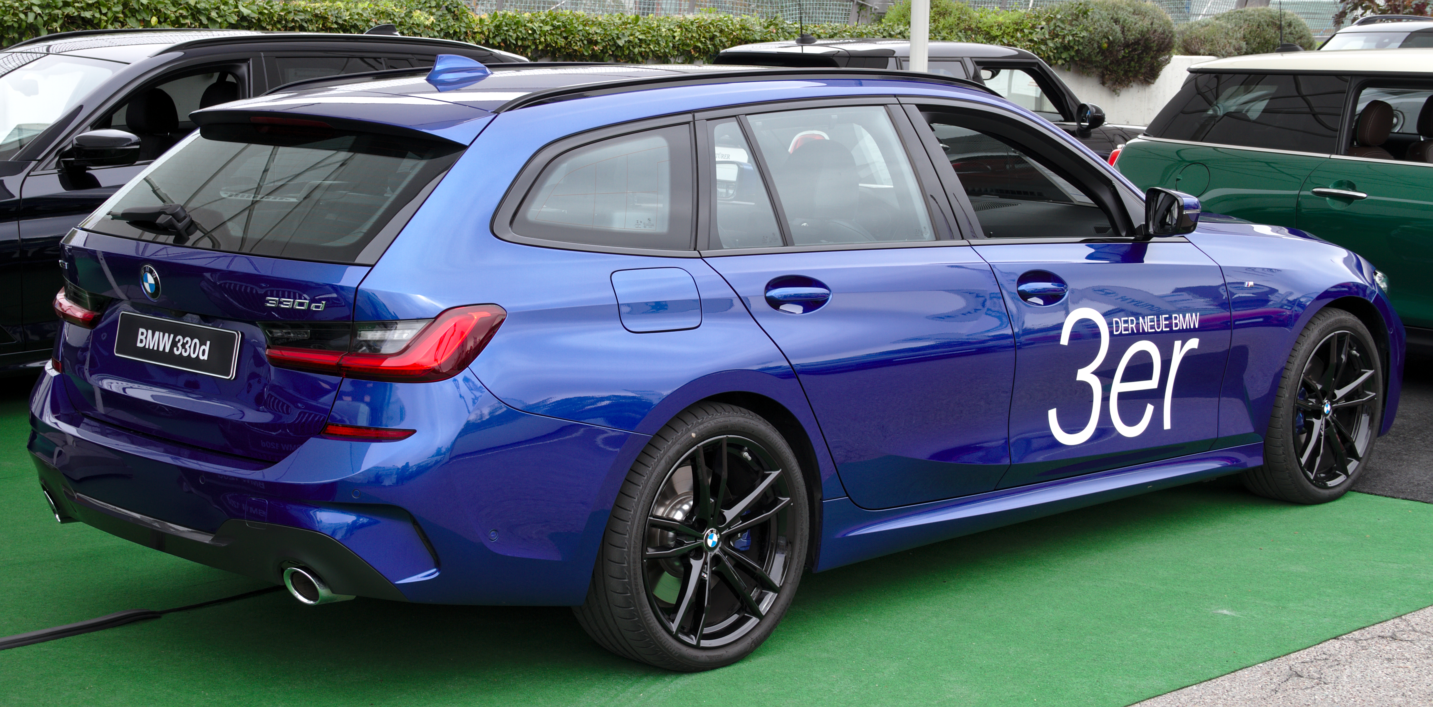 BMW_G21 at Leonberger Autoschau 2019